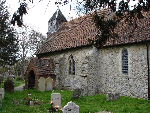 View towards porch